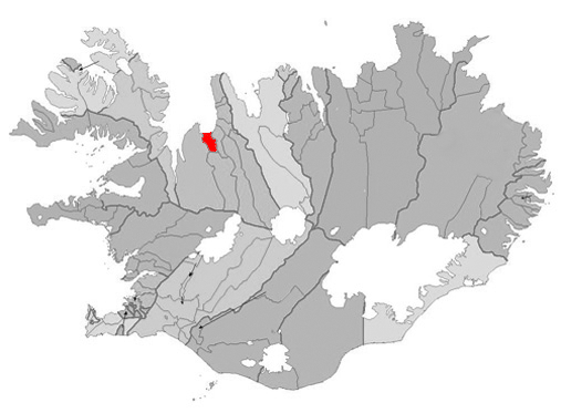 Based on Municipalities of Iceland.png.